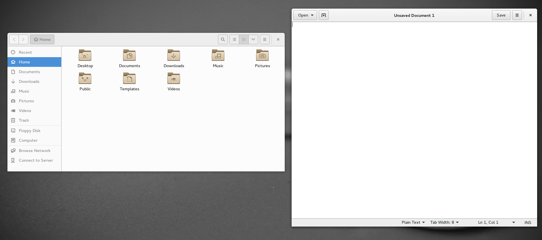 The Adwaita GTK+ theme, default in GNOME 3